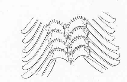 Portion of radula of Spirotropis carinata Phil., Norway Subject: Spirotropis Tag: Mollusks